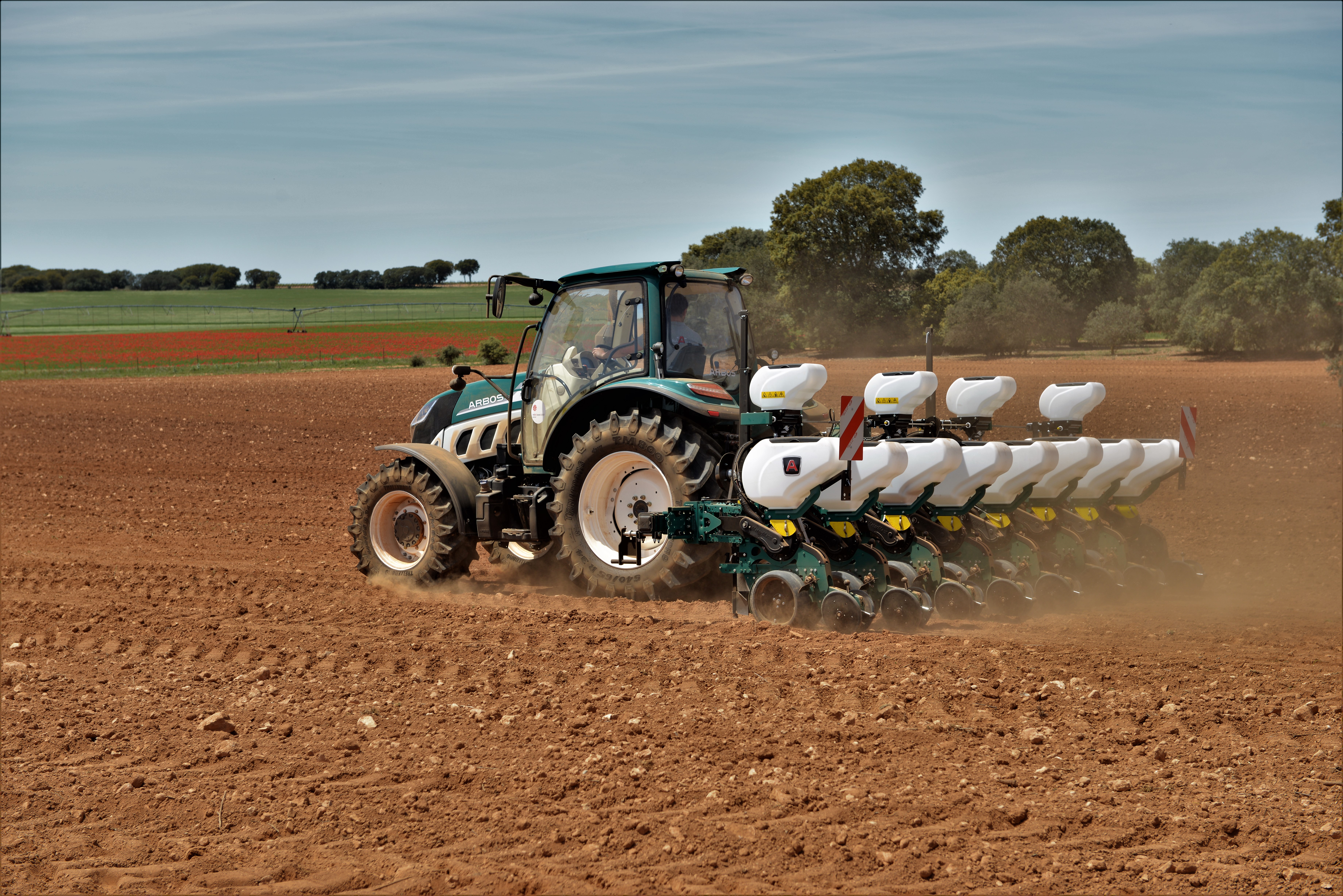 ARBOS 5100 with seeder